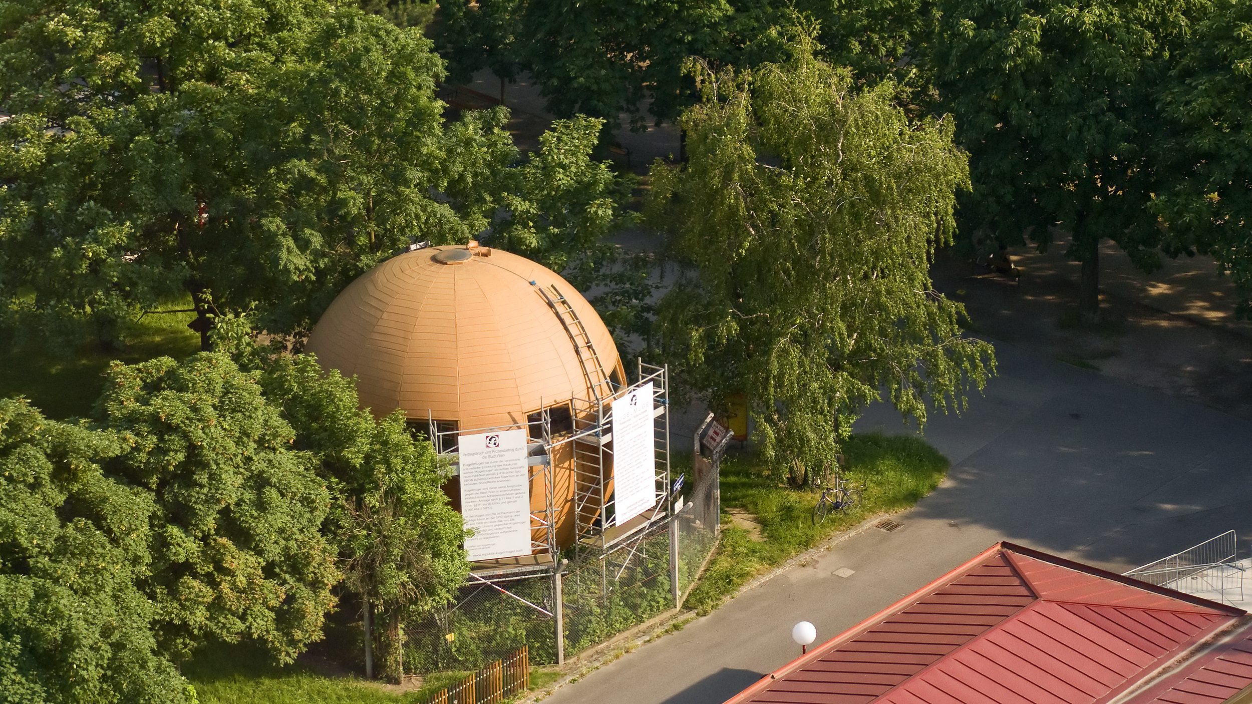 Building Kugelmugel in Wiener Prater